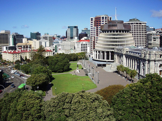 All the main buildings of the NZ government. Also the huge wooden Old Government Building to the left. Photo taken from St Paul's Cathedral